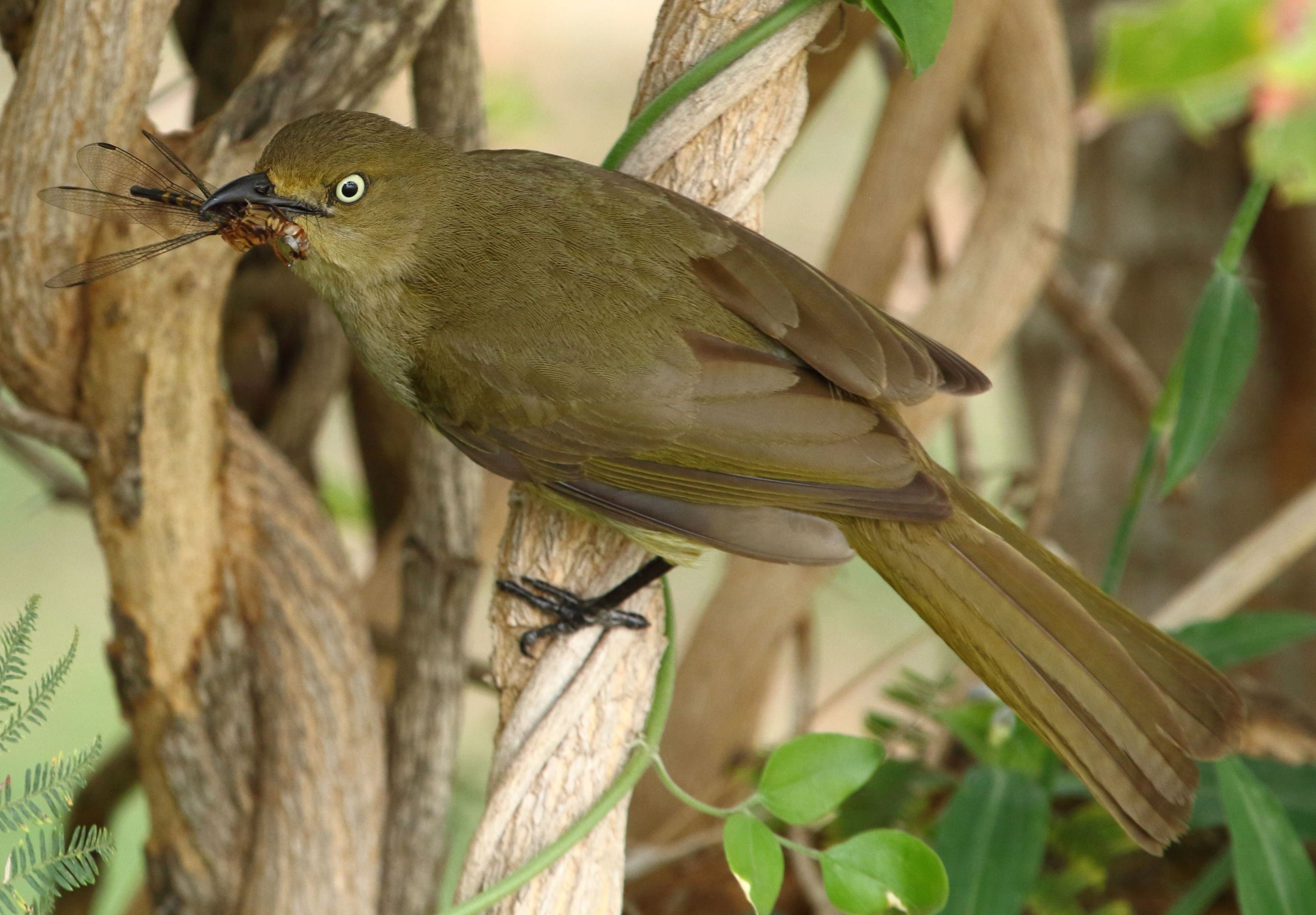 Nominate race of the Sombre greenbul at Ngwenya Lodge, Mpumalanga, South Africa. It is near the contact zone with subsp. A. i. mentor, and likely shares some of its features.